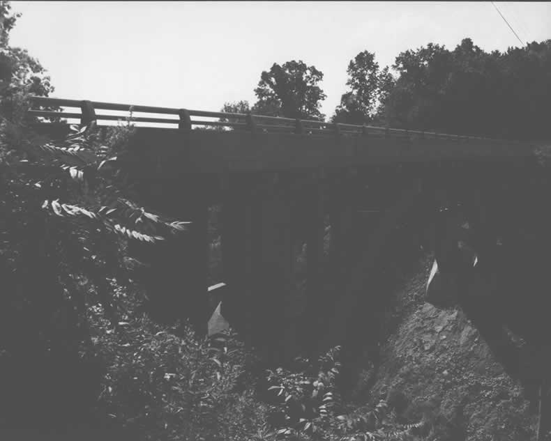 Side of the Colwell Cut Viaduct, which carries Legislative Route 66 over a former Pittsburg and Shawmut railroad line southwest of Seminole in Mahoning Township, Armstrong County, Pennsylvania, United States. Built in 1922, this open spandrel concrete arch bridge is listed on the National Register of Historic Places.